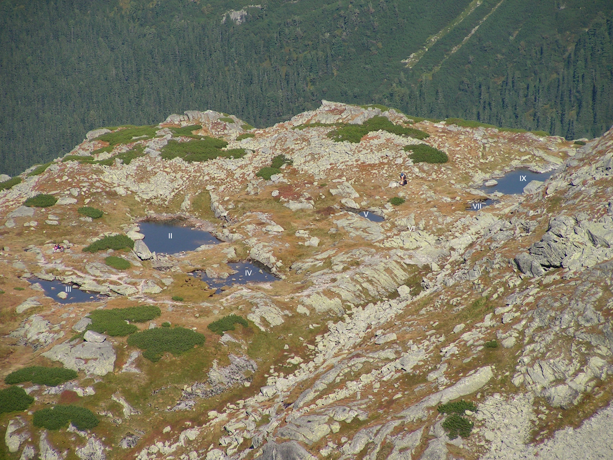 Wyżnie Mnichowe Stawki, view from Wrota Chałubińskiego.